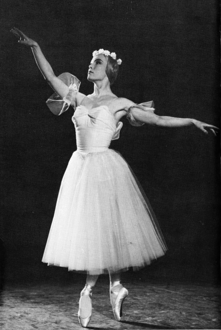 Photograph of the Finnish ballet dancer Virpi Laristo (1934–) in the role of Giselle.